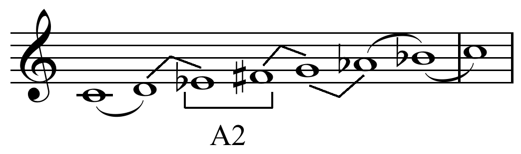 Minor Gypsy Scale on C - Treble Clef